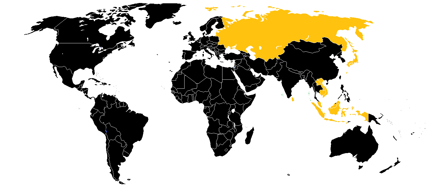 President Rajendra Prasad visited Japan, Malaya, Indonesia, Cambodia, Vietnam, Laos, Ceylon and USSR between 1958 and 1960. Information from the President of India's Secretariat.